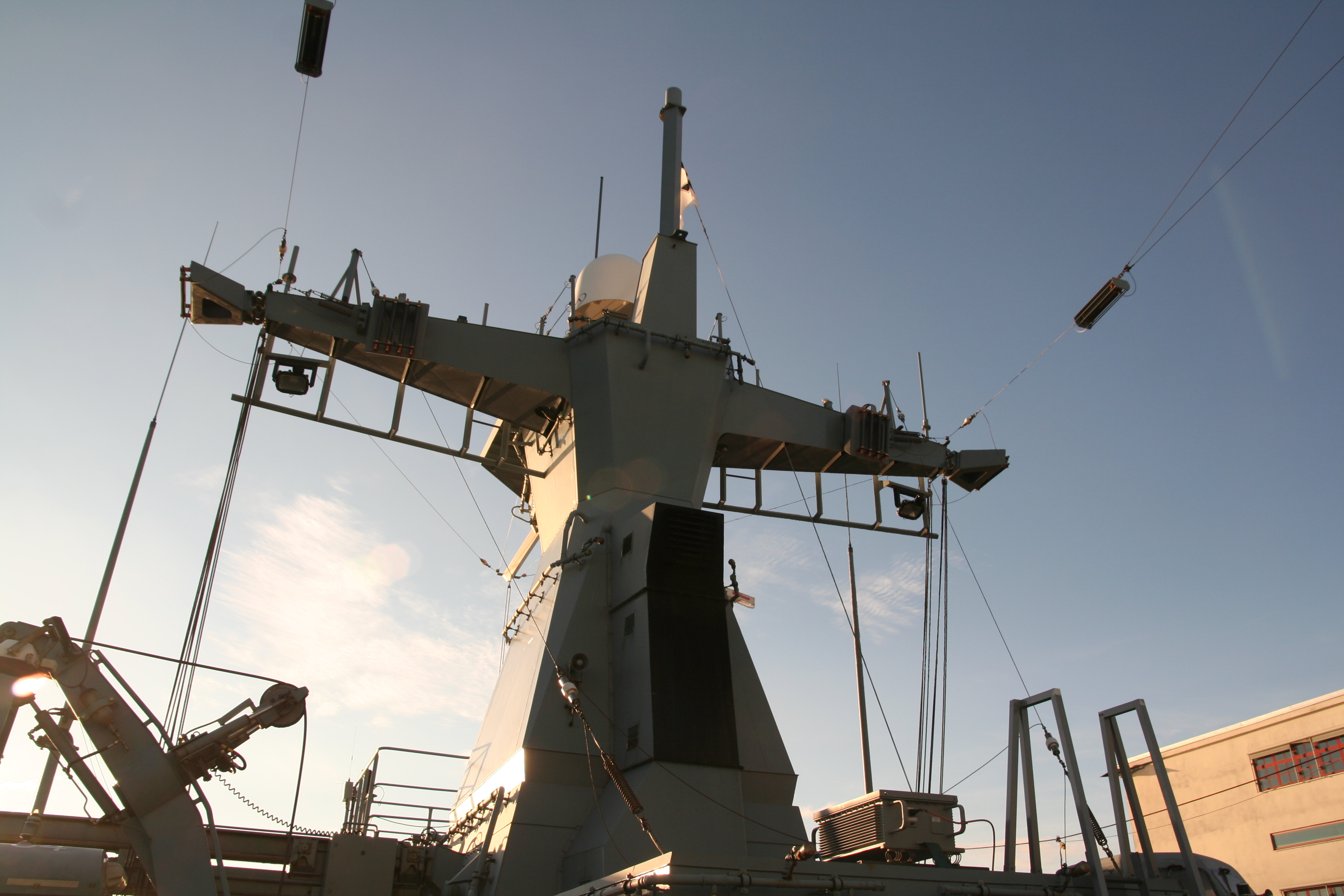 The aft mast of F260 Braunschweig, seen from the front.